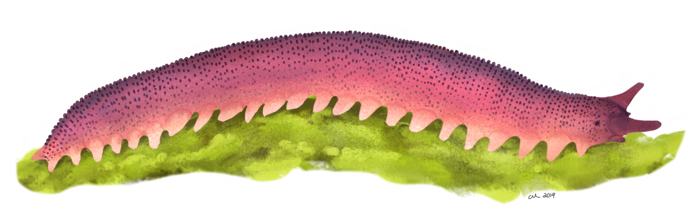 A reconstruction of the earliest known terrestrial Onychophoran, Helenodora inopinata.